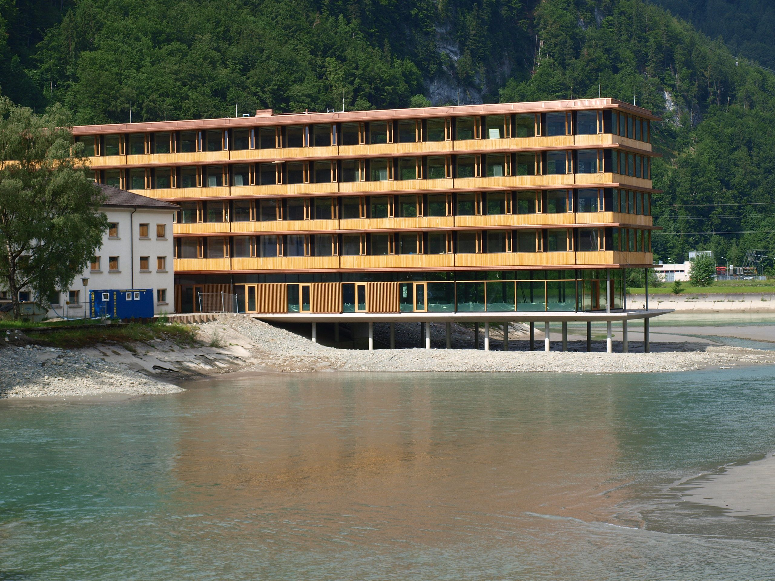 LCT TWO (LifeCycle Tower No. 2), Vandans, Vorarlberg Austria. multifunctional demonstrationbuilding in wood-boltwork. East side of the building (under construction).